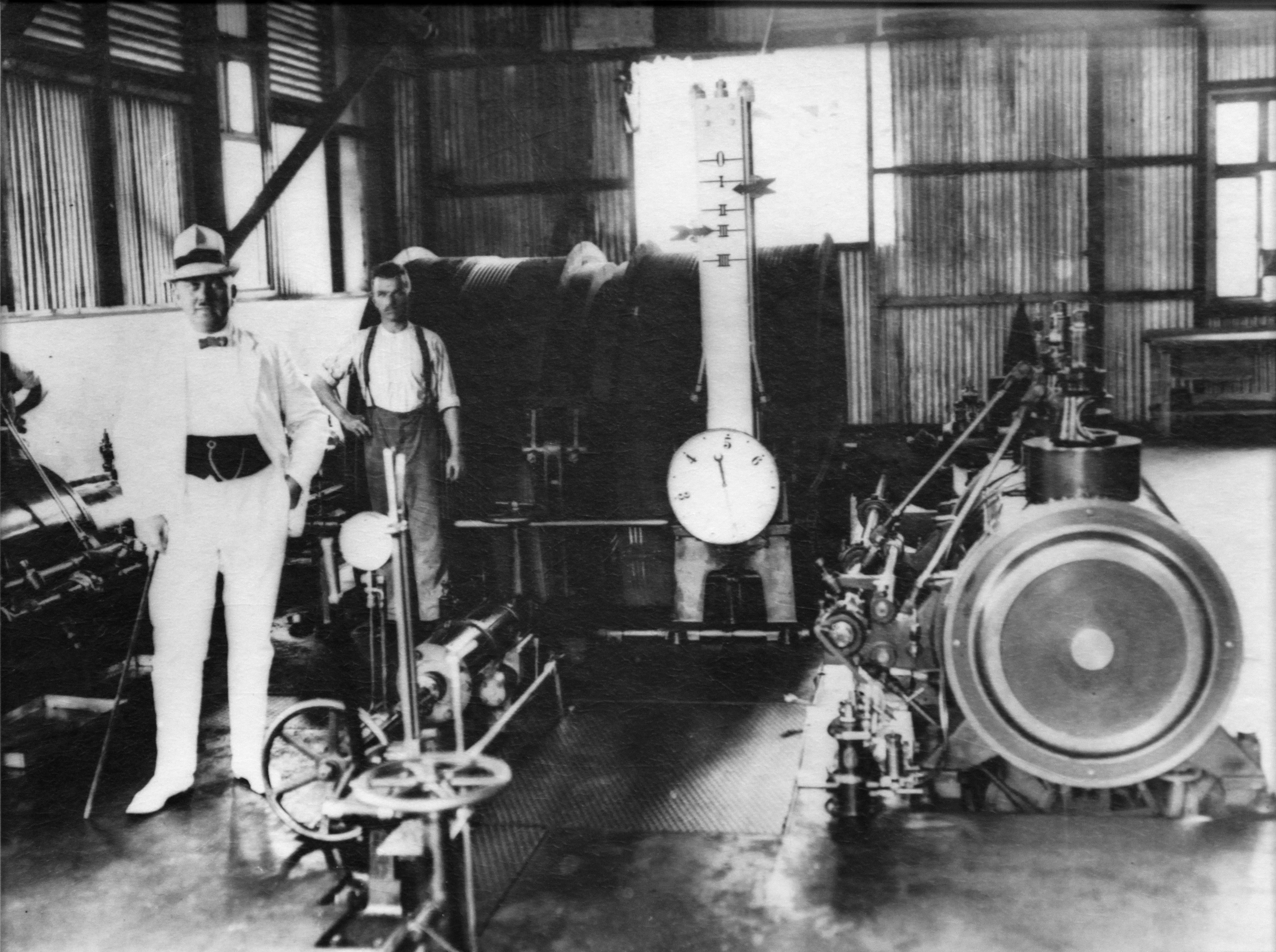 Tsumeb mine: reel inspection by Director Thometzek, 1908-1914